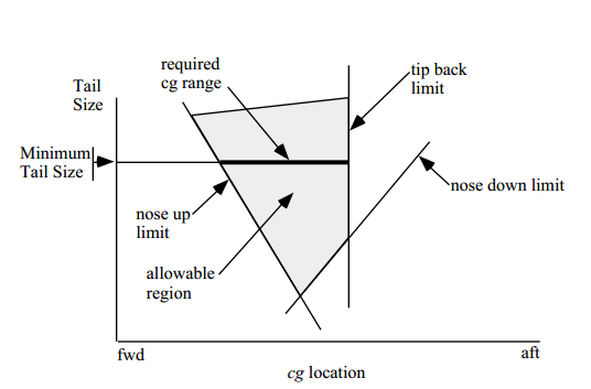 Graph of factors effecting the cg location of transport aircraft.